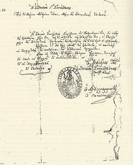 Ίσκος μέλος Εθνοσυνέλευσης